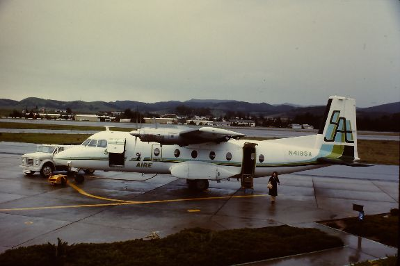 Manufacturer: Nord Aviation Designation: 262 Airline: Swift Aire Lines Serial Number: N418SA